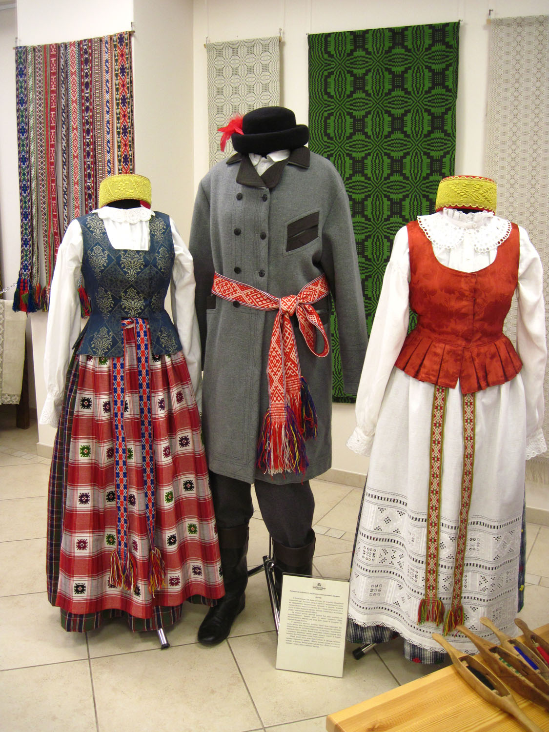 Lithuanian traditional costumes. Dzūkija region. Exhibition in Kyiv (reconstruction).